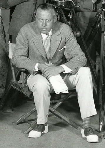 Motion picture director Nick Grindle in a detail from a MGM production still, 1928.